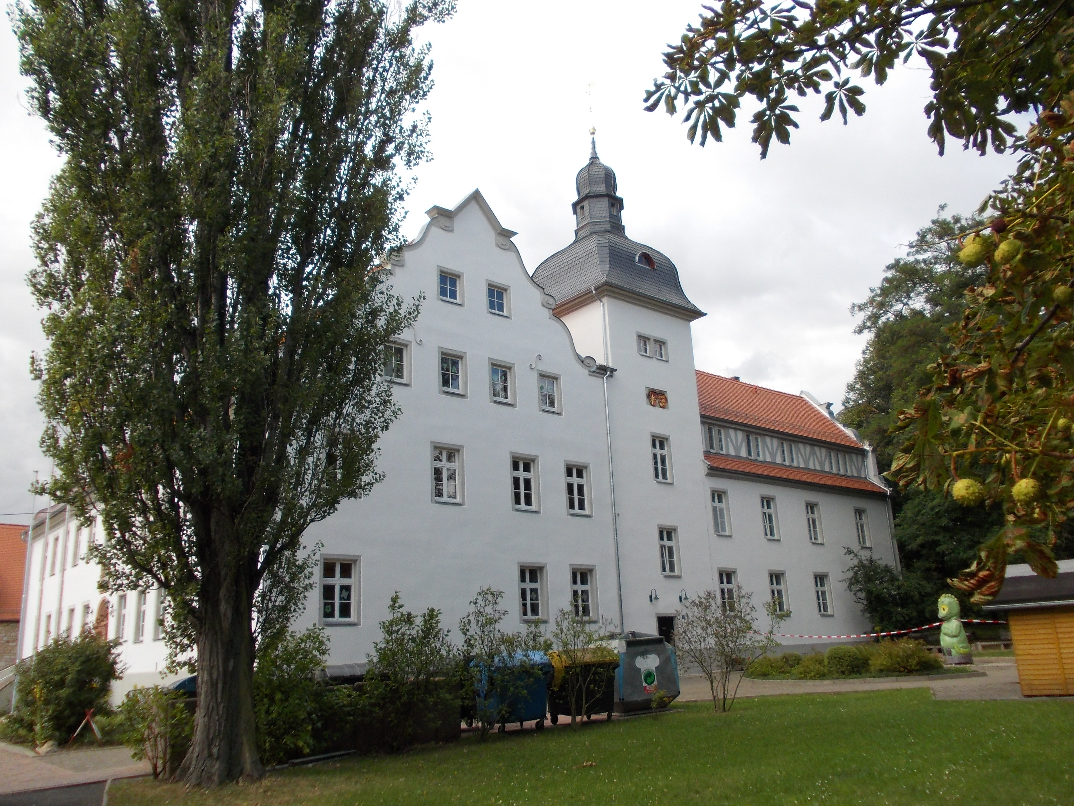 Unterkriegstedt Castle (Milzau, Bad Lauchstädt, district of Saalekreis, Saxony-Anhalt)